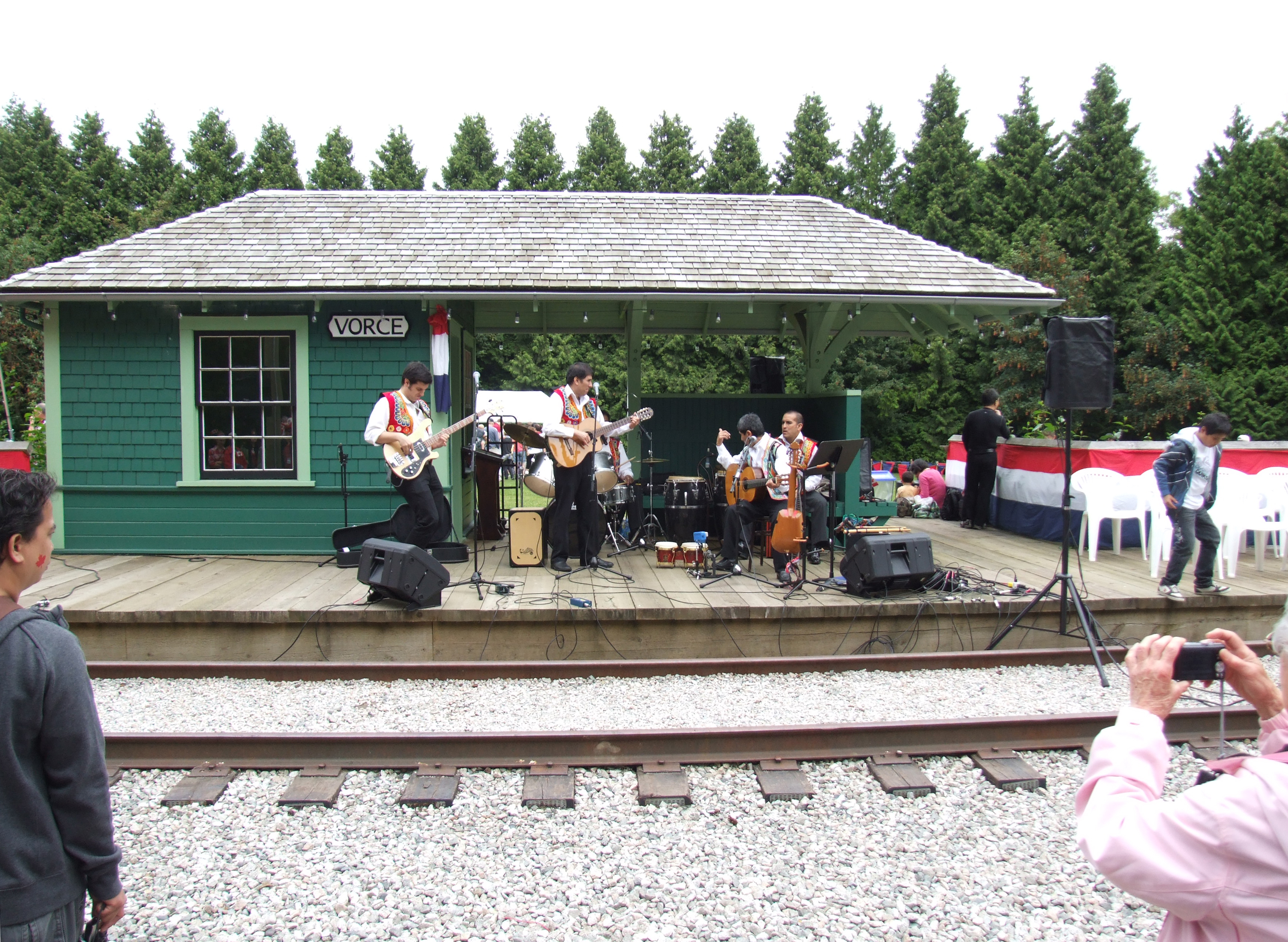 Vorce Station. The station, in the heart of the Burnaby Village, was used as a band stand during the commemoration of Canada and the 40 th anniversary of the Burnaby Village Museum. A latin band - waiting for the tram. Built in 1911 for the b.c. electric railway company’s Burnaby Lake interurban line